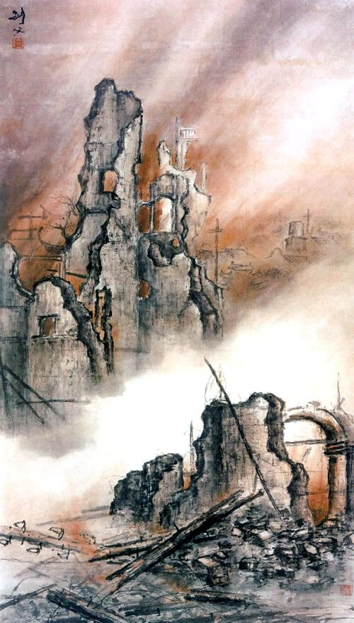 The painting by Gao Jianfu (1879-1951)